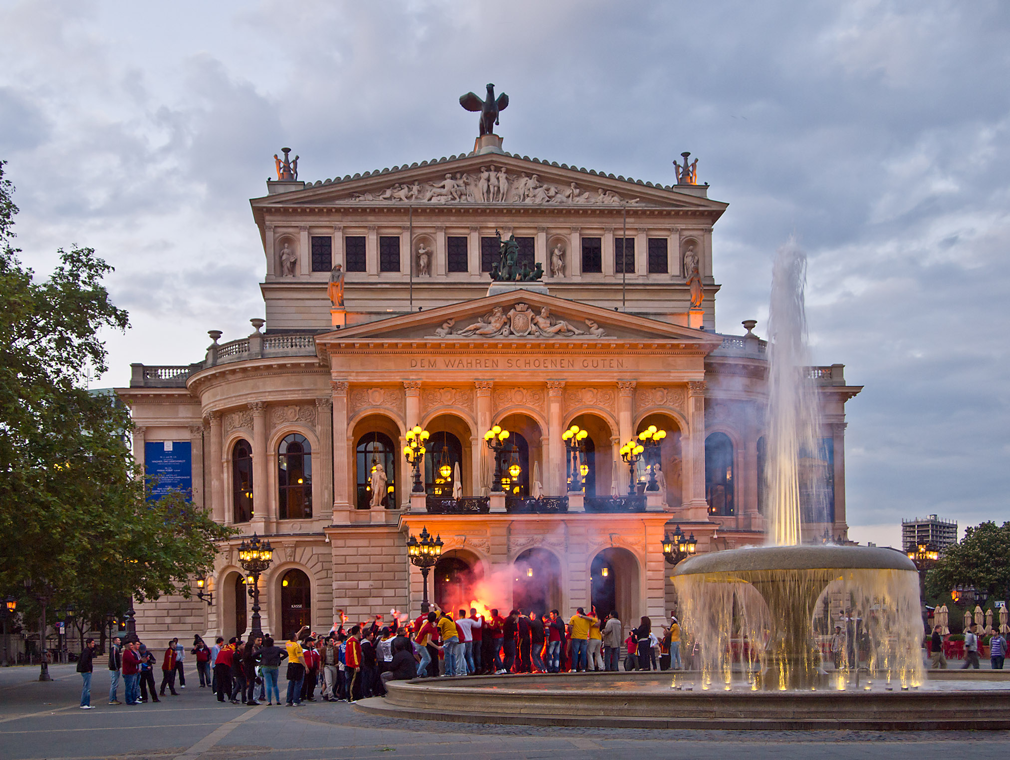 Alte Oper (Old Opera), concert hall and former opera house in Frankfurt am Main, Germany. This is not the house of the Frankfurt Opera today.